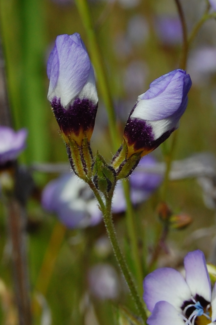 Bird's-eye Gilia. Gilia tricolor. Made in Almaden Quicksilver County Park, San Jose, California, USA. Identified with help of